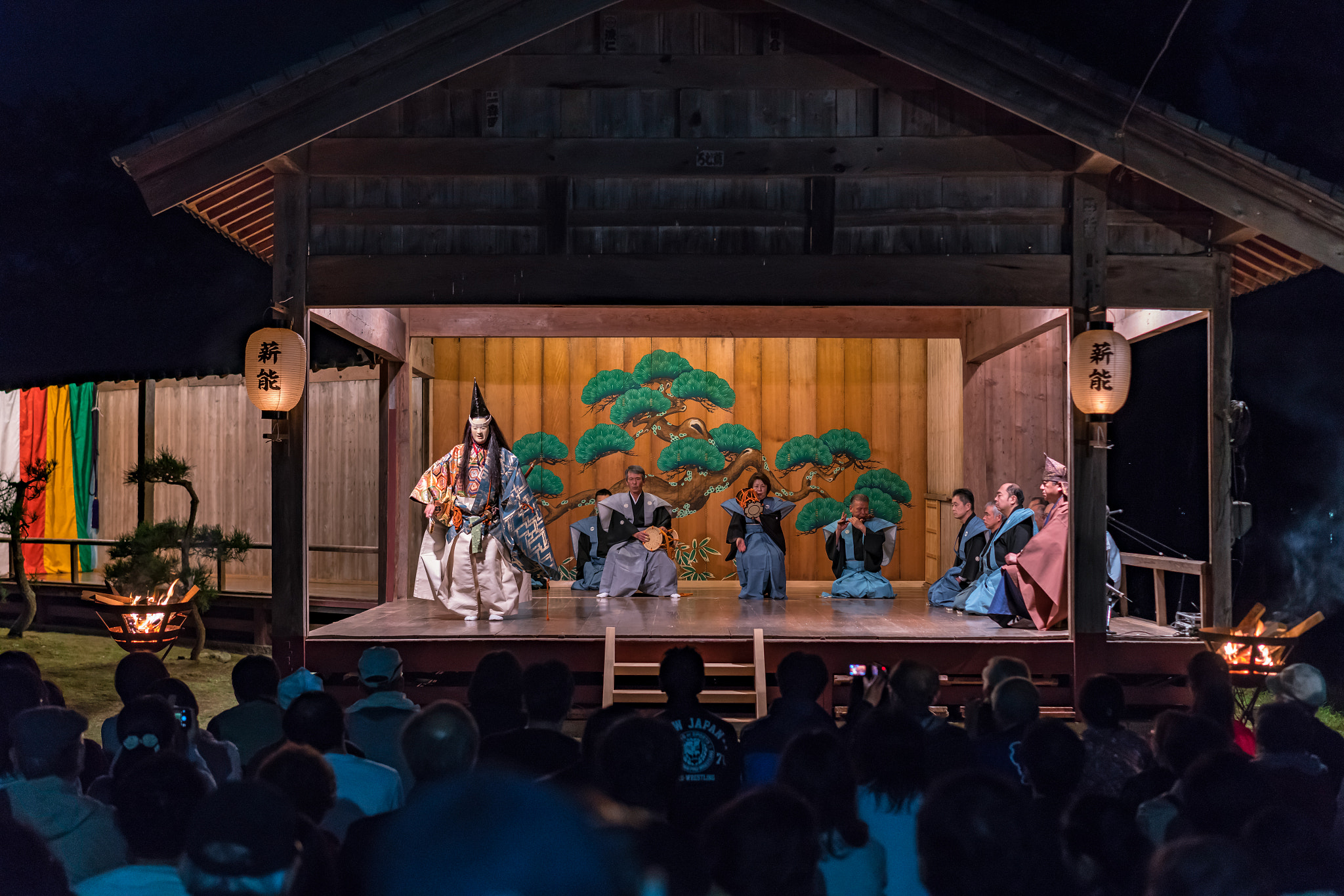 500px provided description: The area where 'Noh' performance is the most popular in Japan. [#Noh ,#? ,#sadoisland ,#japantrip ,#??]